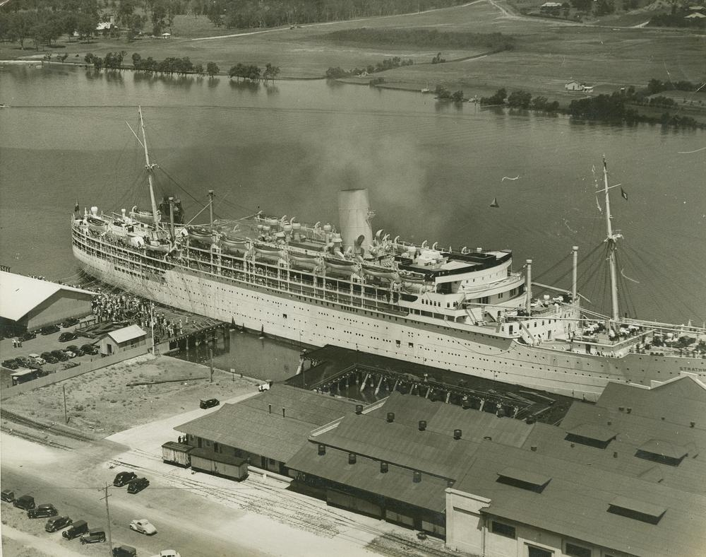 Photographer: George Jackman for Queensland Newspapers Pty. Ltd. Location: Hamilton Wharf, Brisbane, Queensland, Australia. Date: May 1939. Check out this Trove article for exact Strathmore arrival and departure times. View this image at the State Library of Queensland: Information about State Library of Queensland’s collection: You are free to use this image without permission. Please attribute State Library of Queensland.